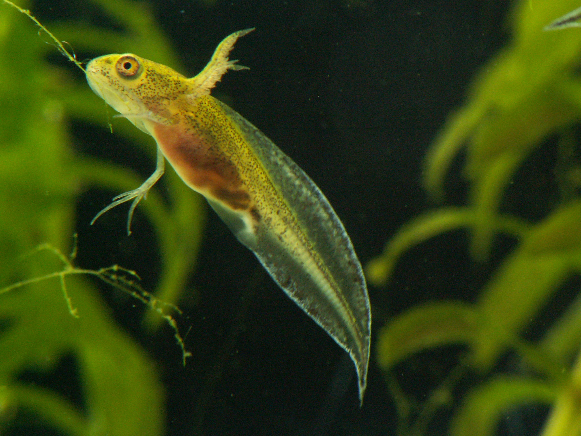 Young larva of Triturus cristatus